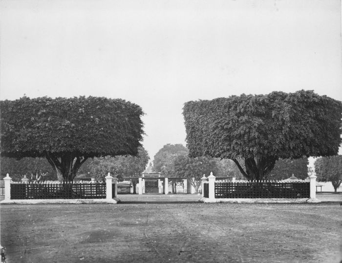 Waringin trees (banyan trees of garden estate), on the alun-alun (large central open lawn square) in front of the entrance of the sultan's kraton (royal palace), Yogyakarta, Indonesia - circa 1857-1874